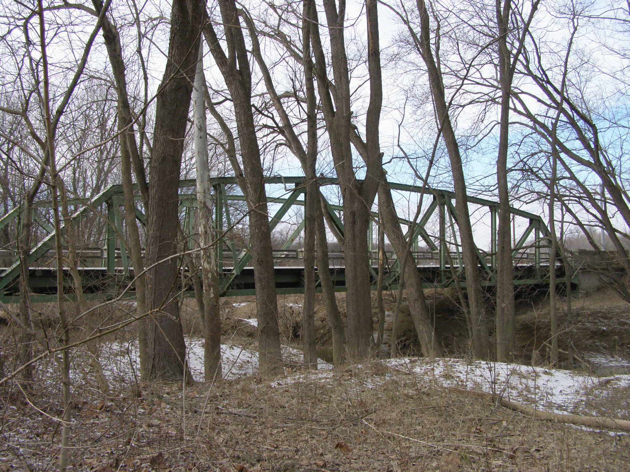 Beanblossom Creek Bridge (N State Rd), the northern entrance from Indiana 37 to Bloomington, Indiana.